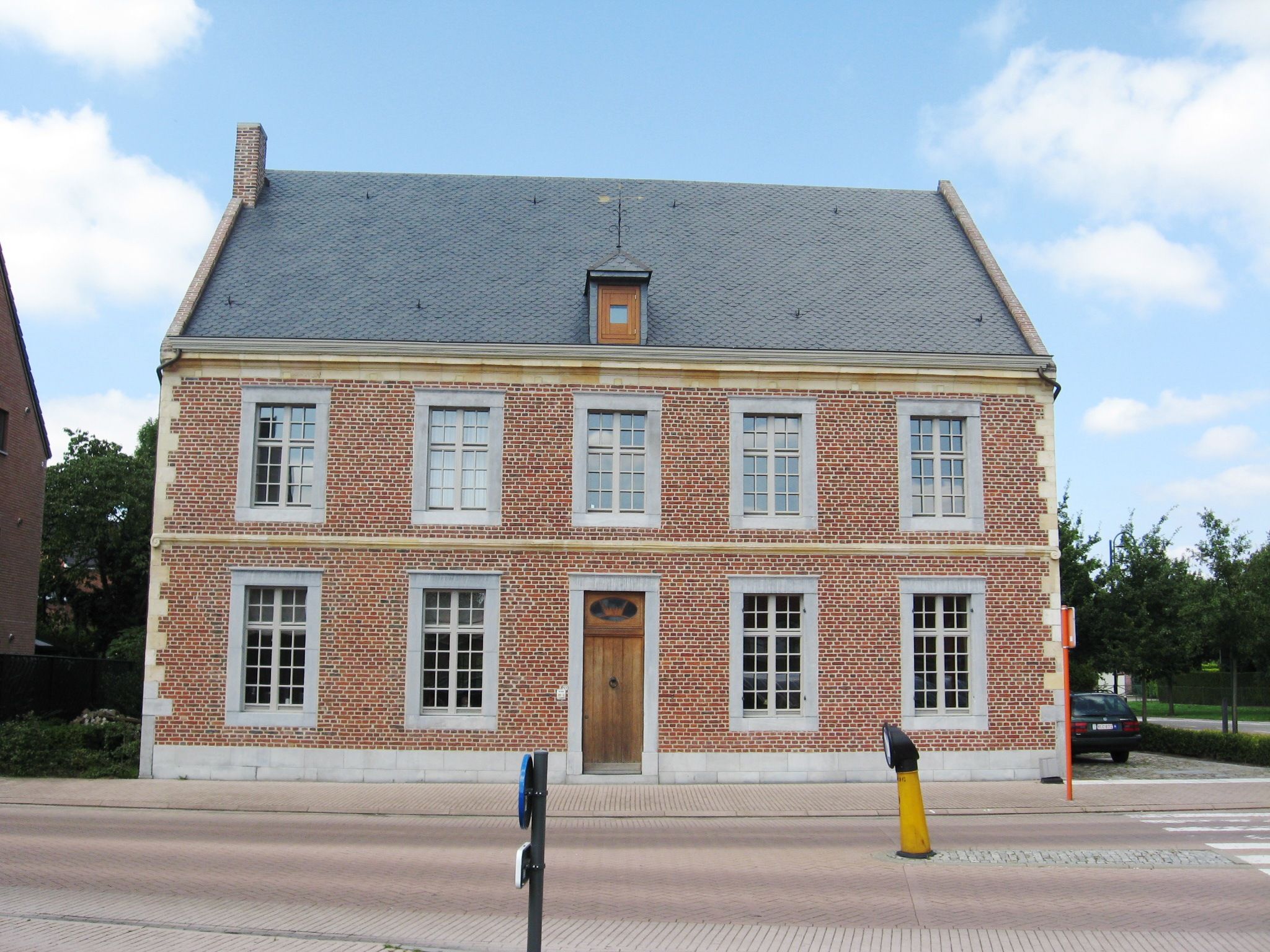 House De Franse Kroon (1782) in Zonhoven, Limburg, Belgium